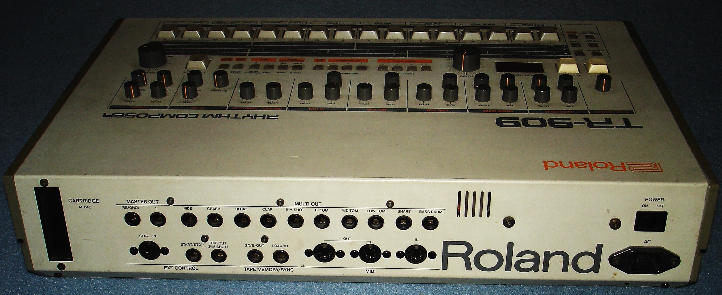 Roland TR-909 rear. (Original: self taken image showing the rear connection plugs of this electronic musical instrument)